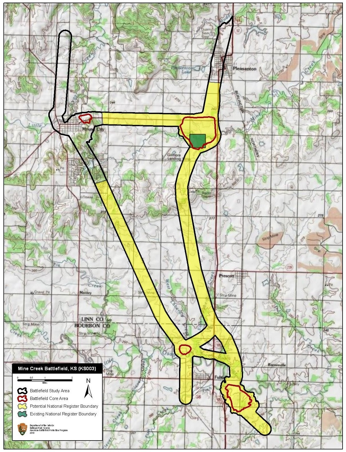 Map of battlefield core and study areas.